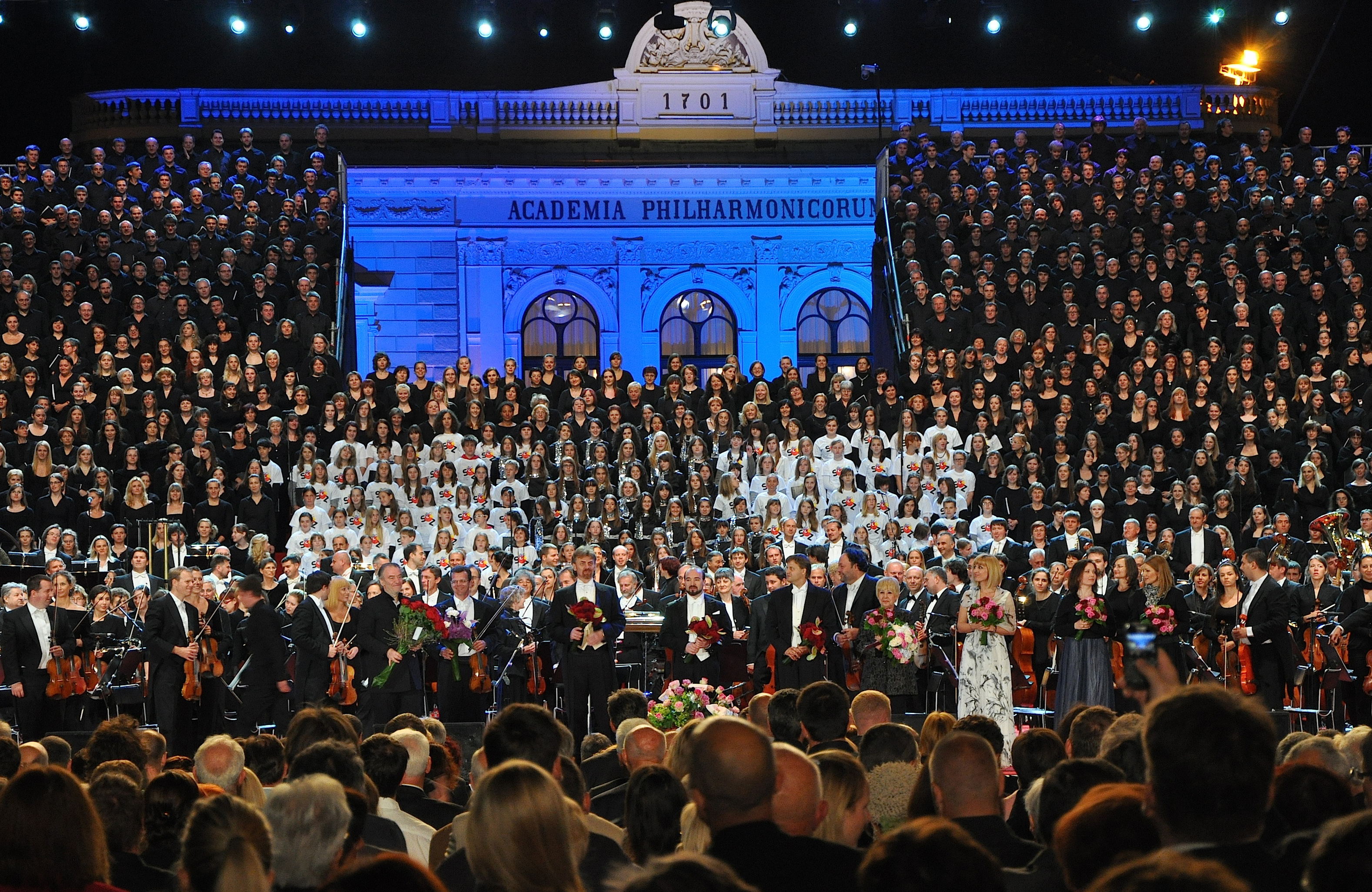 The Concert of Gustav Mahler Symphony No.8, 3. July, Ljubljana, Slovenia Occasion: 20th anniversary of Slovenian and Croatian attainment of independence 100th anniversary of Mahler's death the opening event of Festival Ljubljana 2011 the opening of renewed Congress Square 310th anniversary of Slovenian Philharmonic Society (conducted by Mahler in season 1881/82) 140th anniversary of Croatian Philharmonic Society People with flowers, from the left: Valery Gergiev (conductor), ? (first violin), Vladimir Feljauer (bass), Jože Vidic (baritone), Sergej Semiškur (tenor), Zlatomira Nikolova (alto), Martina Gojčeta Silić (alto), Anastazija Kalagina (soprano), Viktoria Jastrebova (soprano). Sabina Cvilak (soprano) is not on this picture. Total no. of people performing: 1083